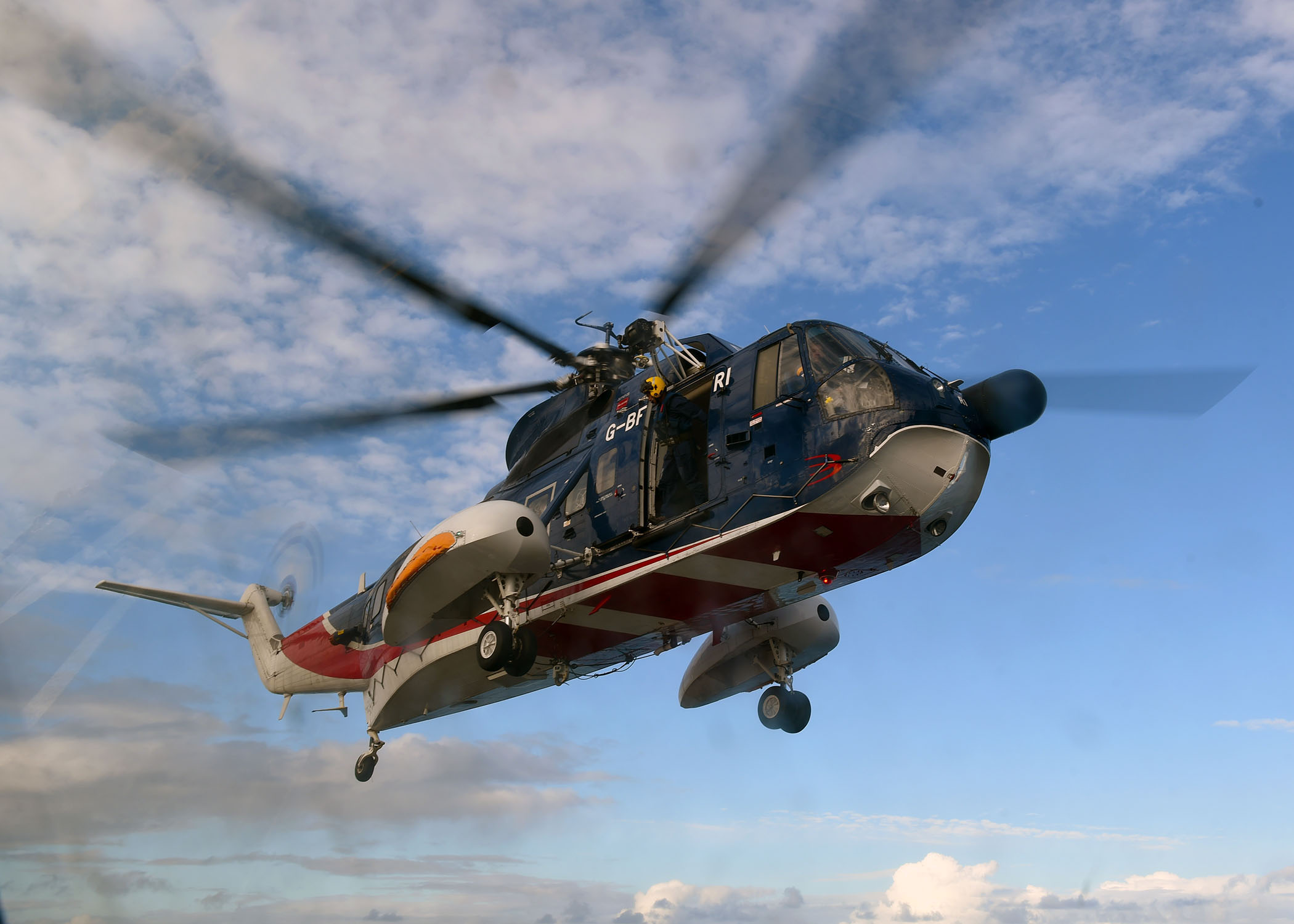 A British International Helicopter Services Sikorsky S-61N Mk.II helicopter (c/n 61-809, civil registration G-BFRI) lands aboard the U.S. Navy guided-missile cruiser USS Vicksburg (CG-69), not visible, to exchange military liaison personnel in the Atlantic Ocean as part of "Exercise Joint Warrior 14-2". The training exercise was designed to improve interoperability among allied nations and prepare joint forces for combined operations.